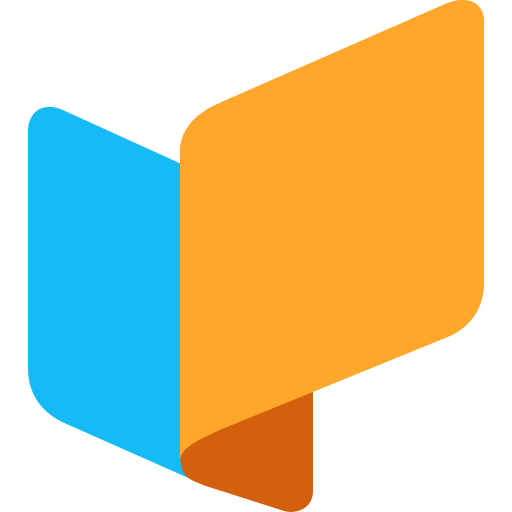 Logo image for web app Lingua.ly